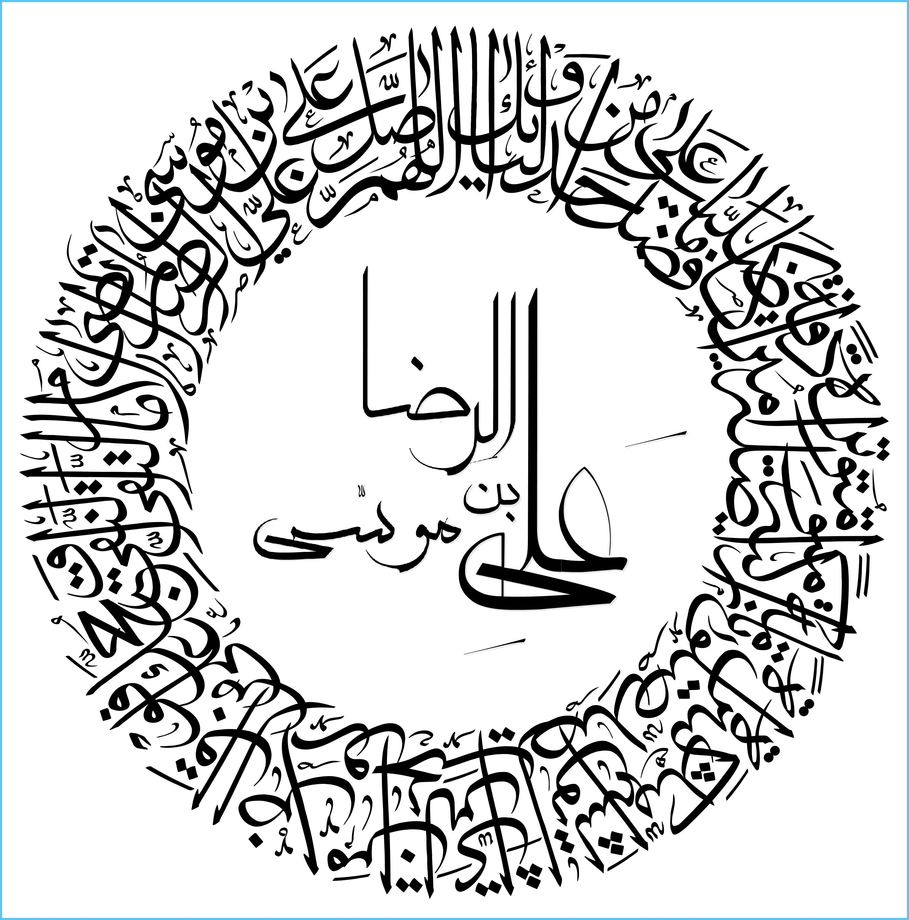 Imam Reza calligraphy.